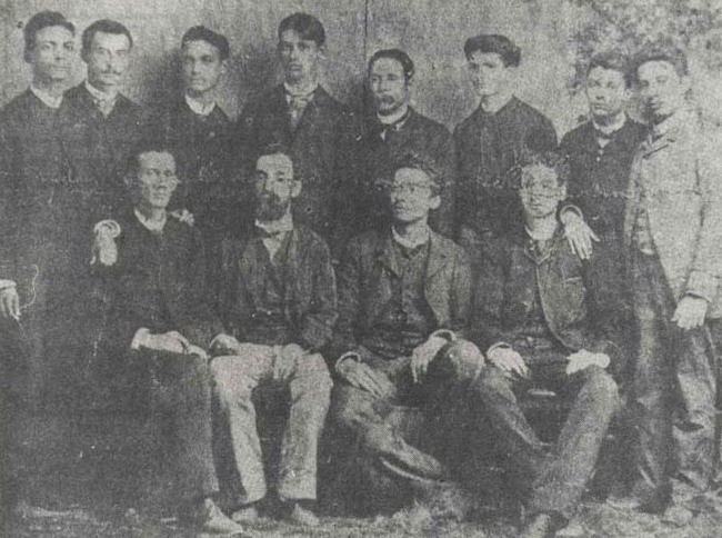 Eugenio María de Hostos and his students at the Teachers School in 1880